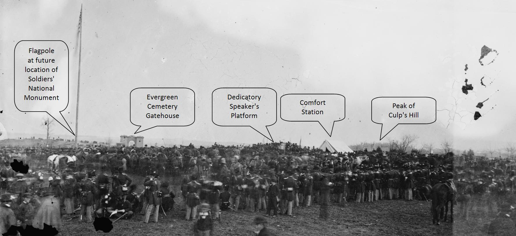 Source: Library of Congress